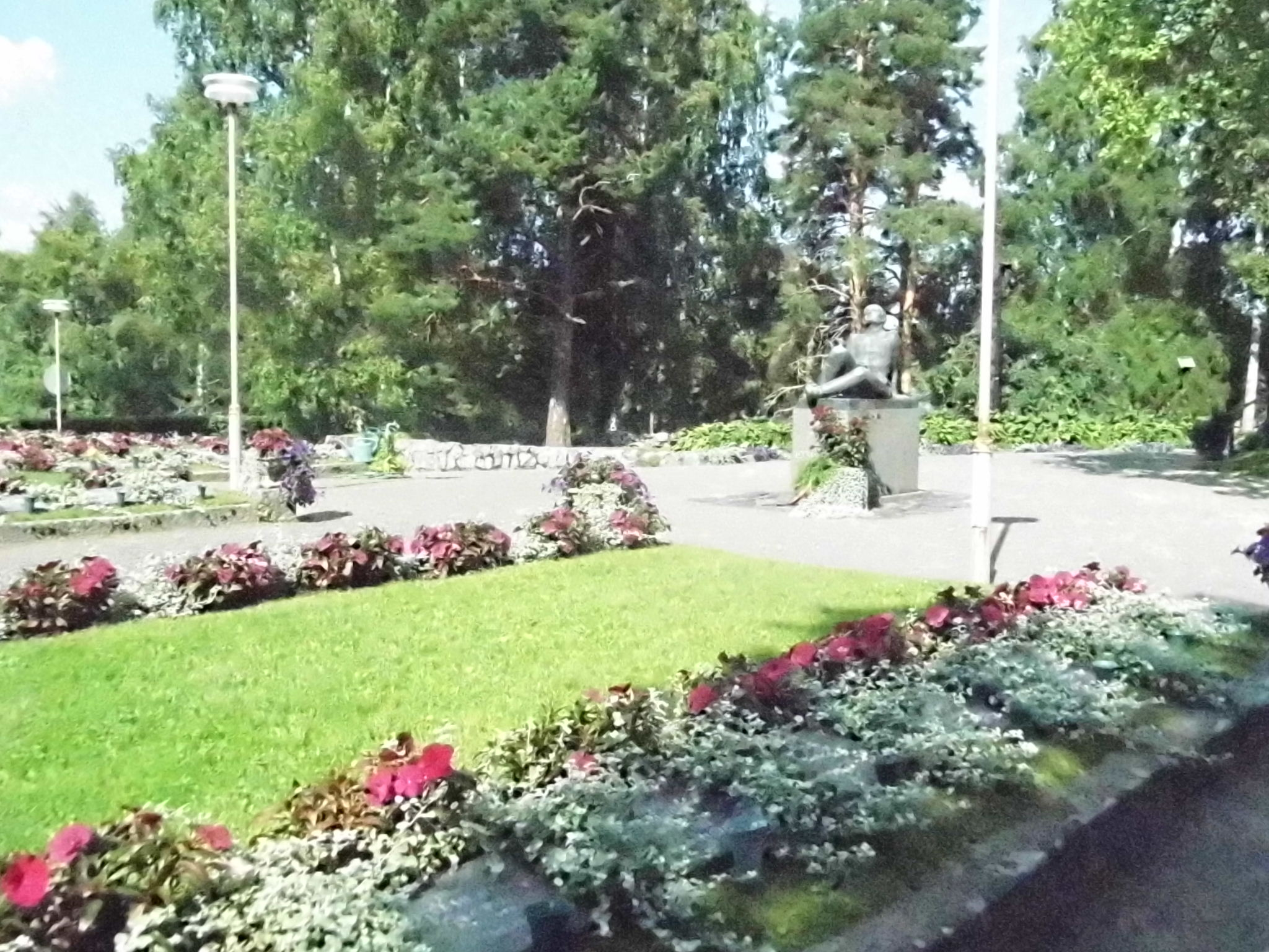 Military cemetary at Kangasniemi church, Finland